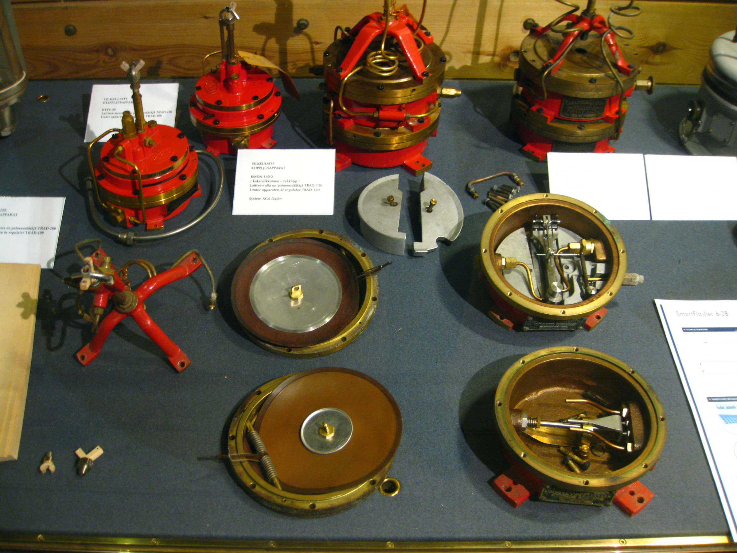 Dalén light apperature (regulators and flashers)